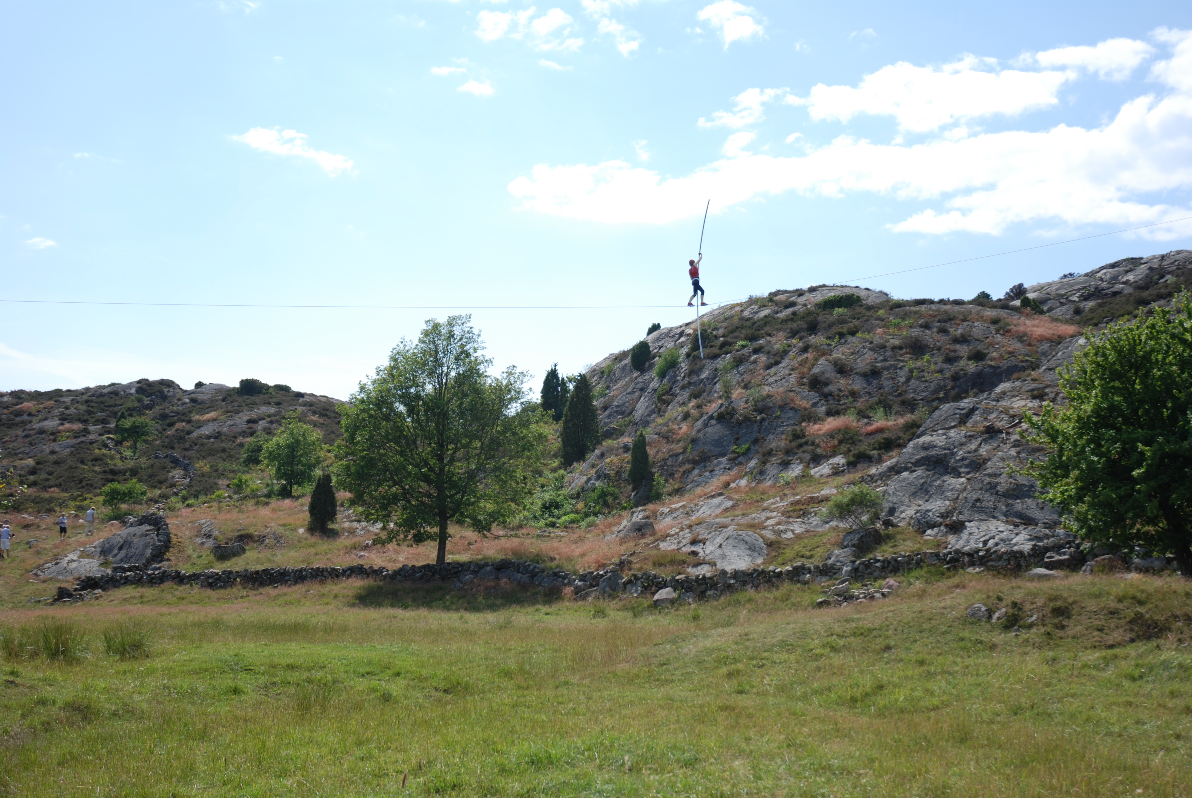 Eric Langert´s Allt är möjligt i Skulptur i Pilane